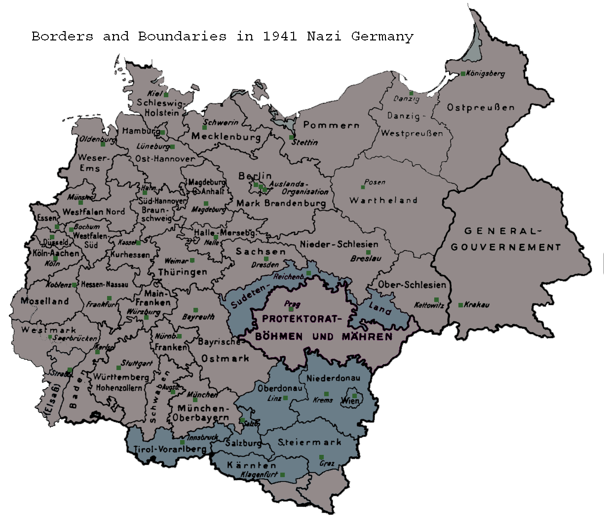 Map of the administrative districts in territories under the control of Nazi Germany in 1941. This map shows administration borders and has been retouched from the original Wiki Commons image. Specifically, German descriptions and titling have been eliminated.